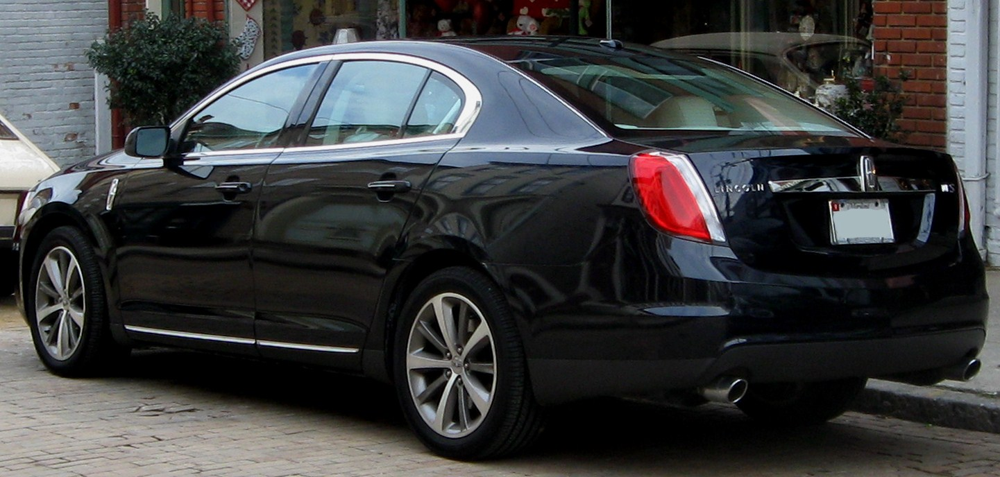 2009-2010 Lincoln MKS photographed in Annapolis, Maryland, USA.